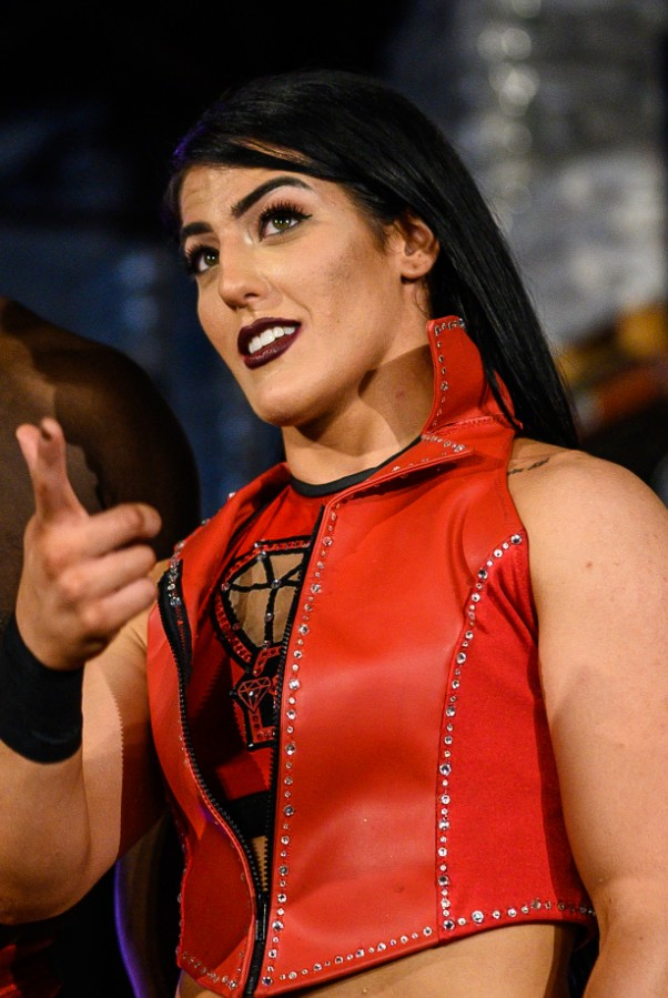 Professional wrestler Tessa Blanchard during as Impact Wrestling event